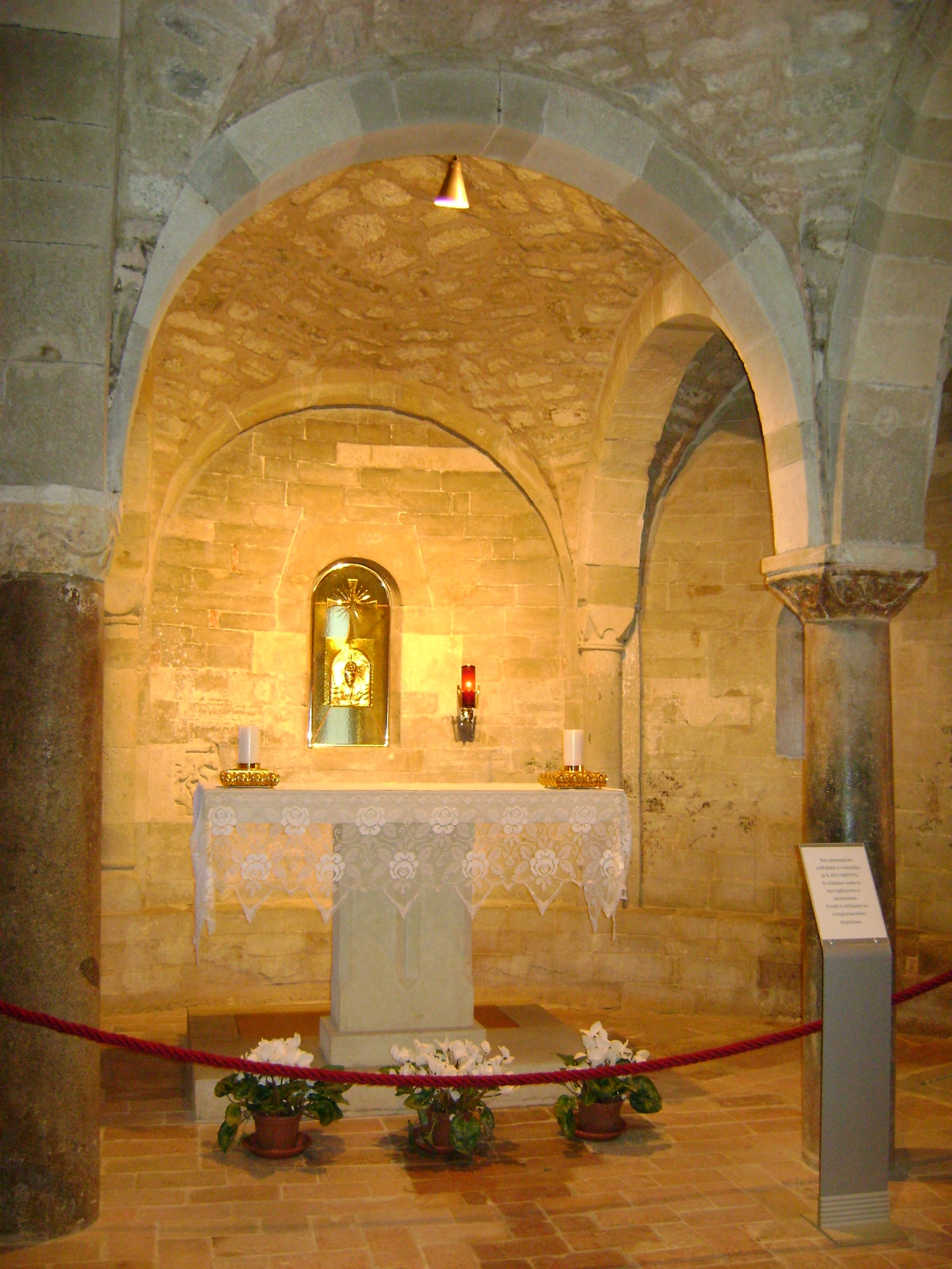 The altar in the crypt of the Cathedral of San Leo, in San Leo, province of Rimini, Emilia-Romagna